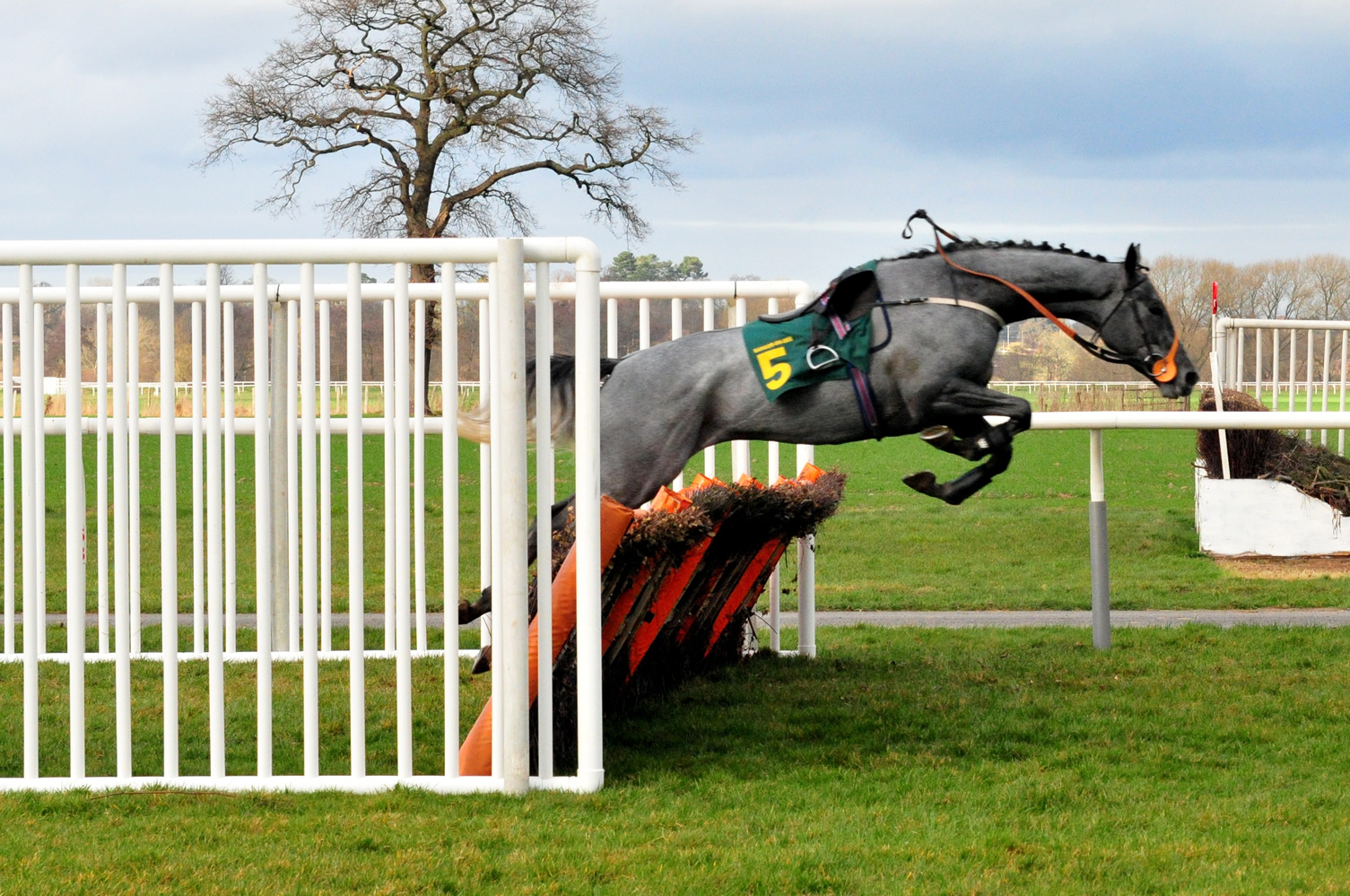 Horse Running Without Jockey